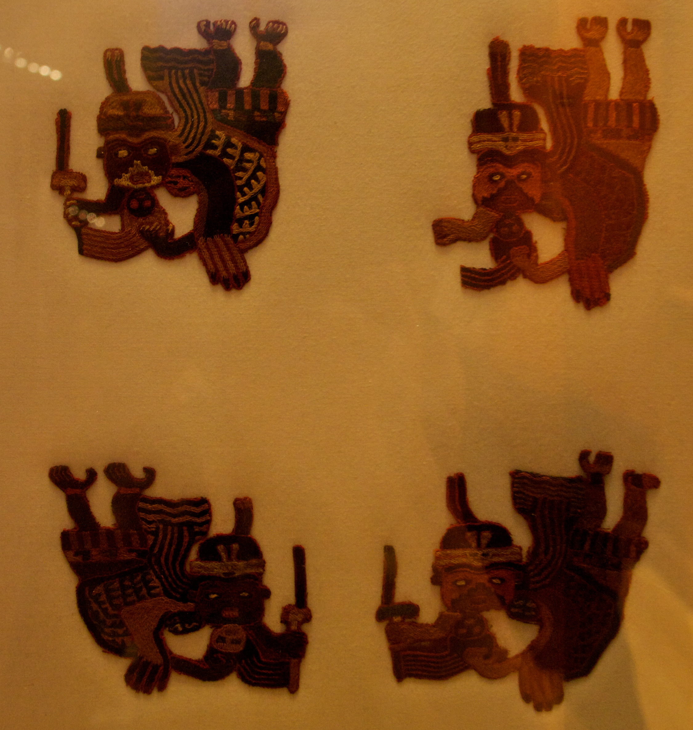 Paracas textile. Object 24 of 100. British Museum. About 300-200 BC. Paracas, Peru. Cloth. AM 1954, 05.563; AM 1954, 05.565; AM 1937,0213.5 & AM 1937,0213.5